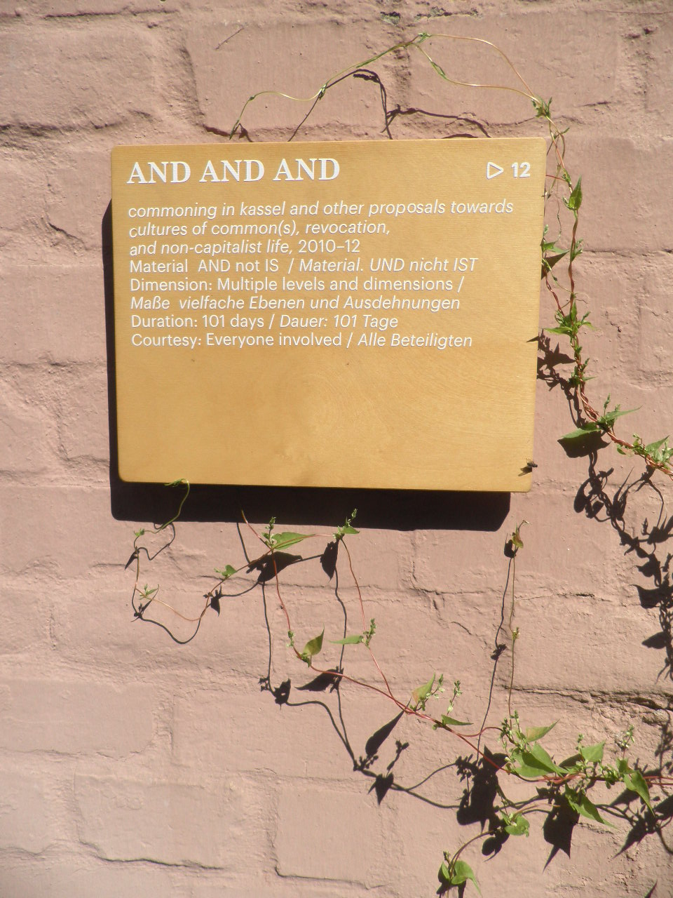 "commoning in kassel and other proposals towards cultures of common(s), revocation, and non-capitalistic life, 2010-12". Hauptbahnhof Nachrichtenmeisterei, august 2012. AND AND AND is an artist-run initiative in wich participate several groups, collectives and individual artists to drive (un)workshops, organize activities and create situations during dOCUMENTA(13)